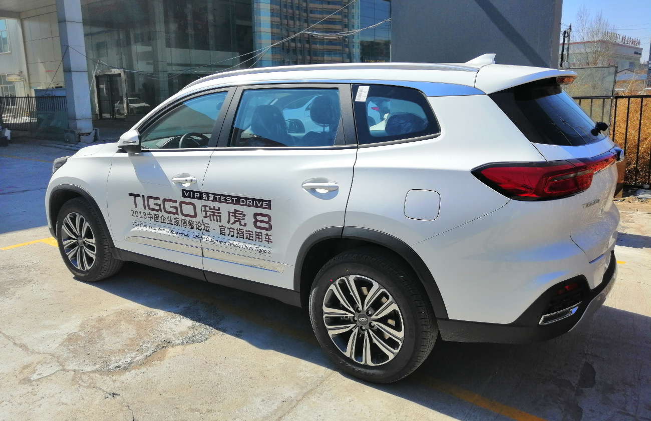 Chery Tiggo 8 photographed in Hohhot, Inner Mongolia autonomous region, China.